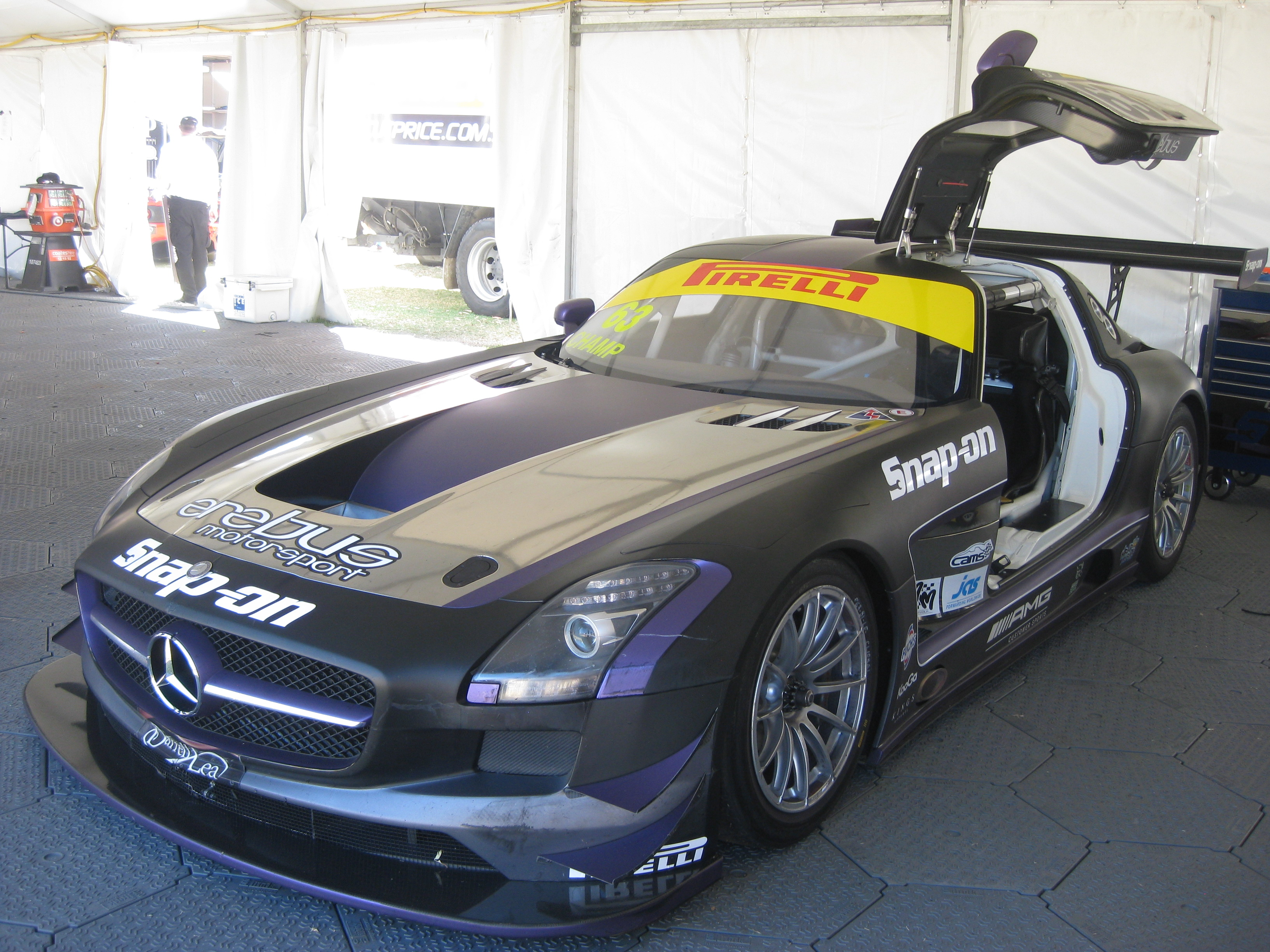 The Mercedes-Benz SLS AMG GT3 of Craig Baird at the Adelaide Parklands Circuit for Round 2 of the 2013 Australian GT Championship